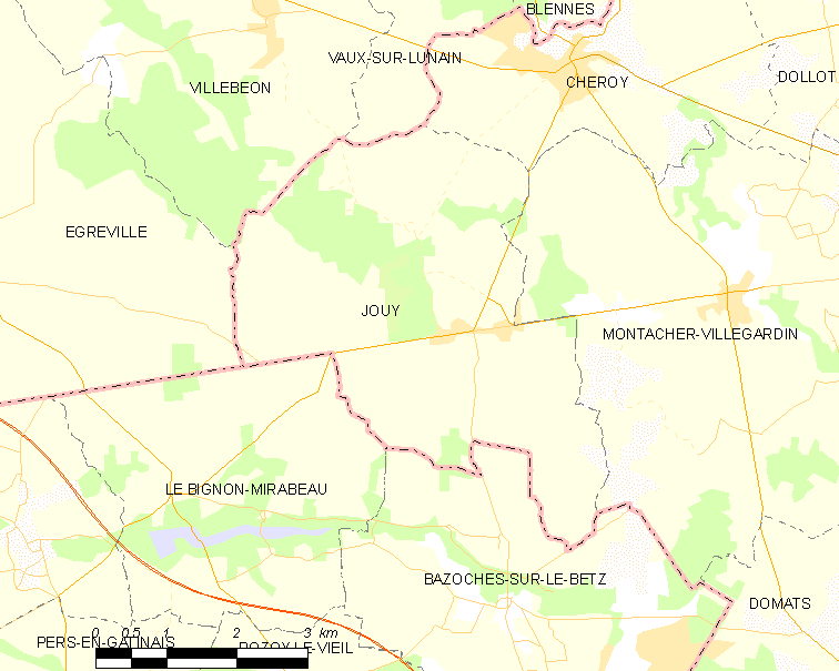 Map of French municipality Jouy